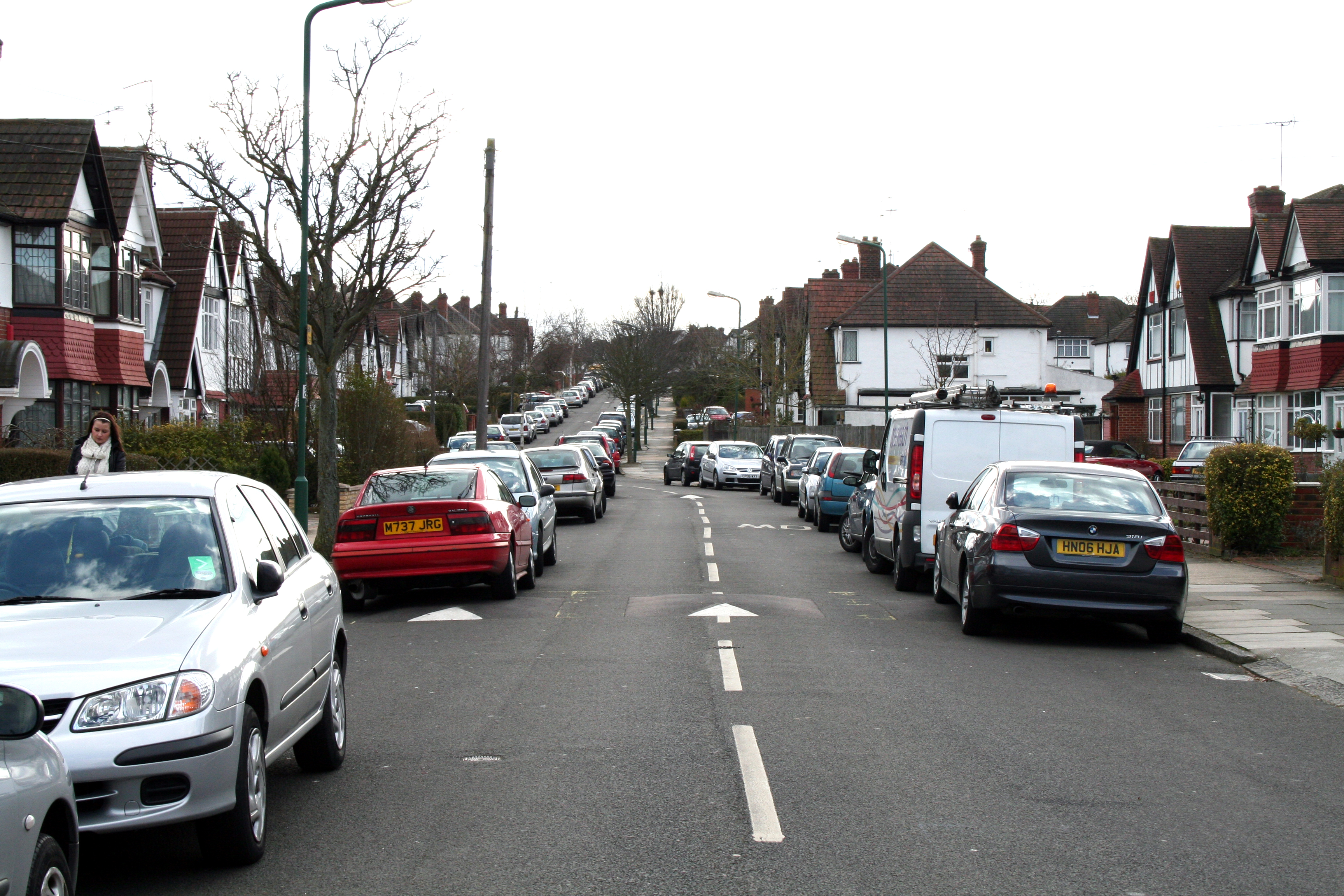 South Kenton: Nathans Road Looking south from the junction of Norval Road